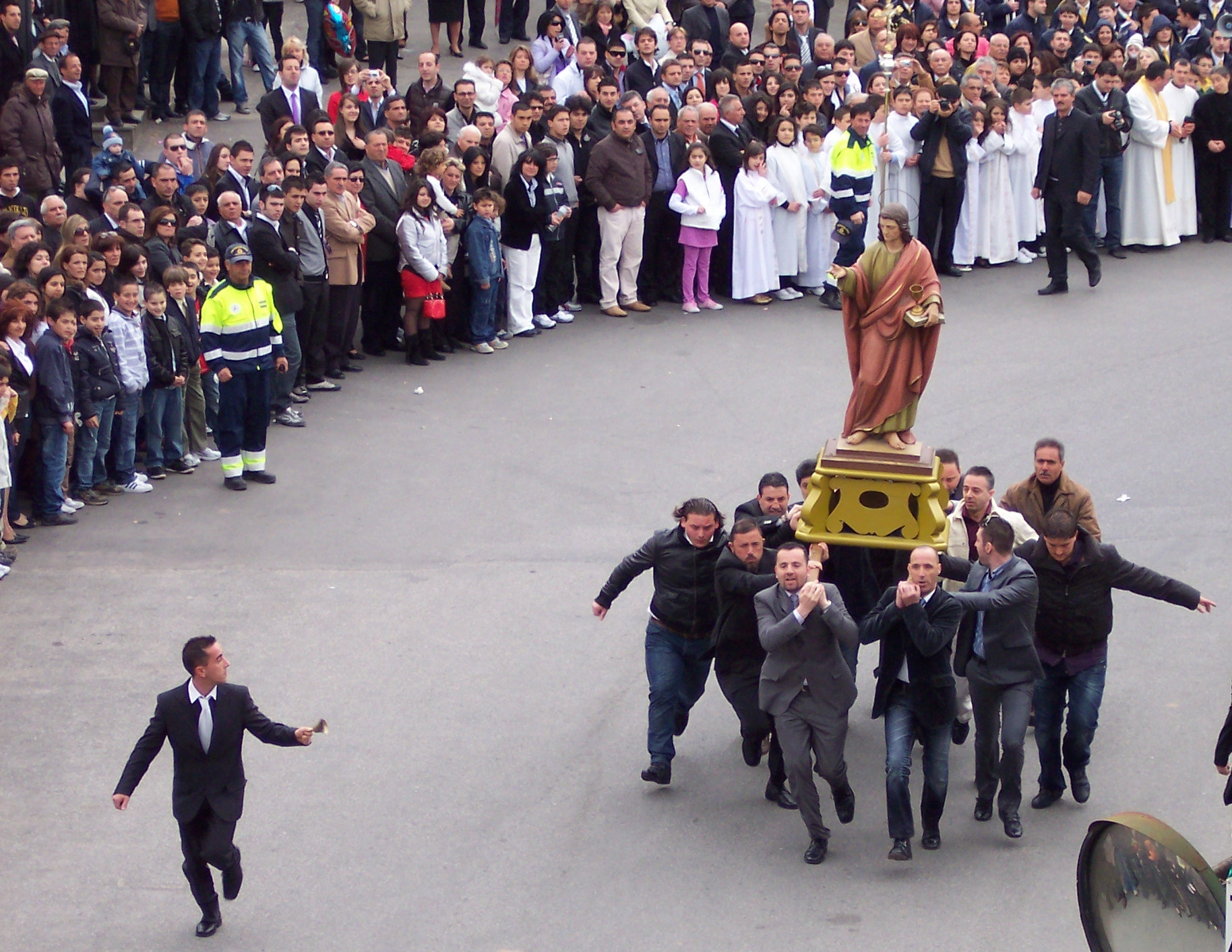 Statue of John the Baptist during the Affruntata, a religious tradition of Southern Italy, during the Easter day. Photo taken in Acquaro on April 12th 2009, Easter sunday.